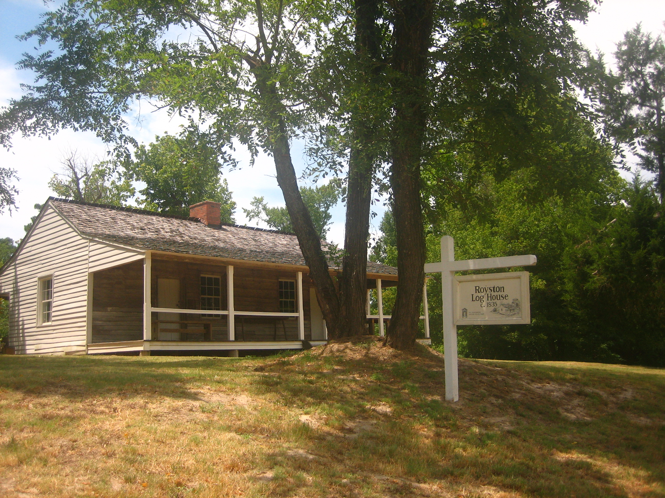 Front of the Royston Log House in Washington, Arkansas, United States. Built in 1830.